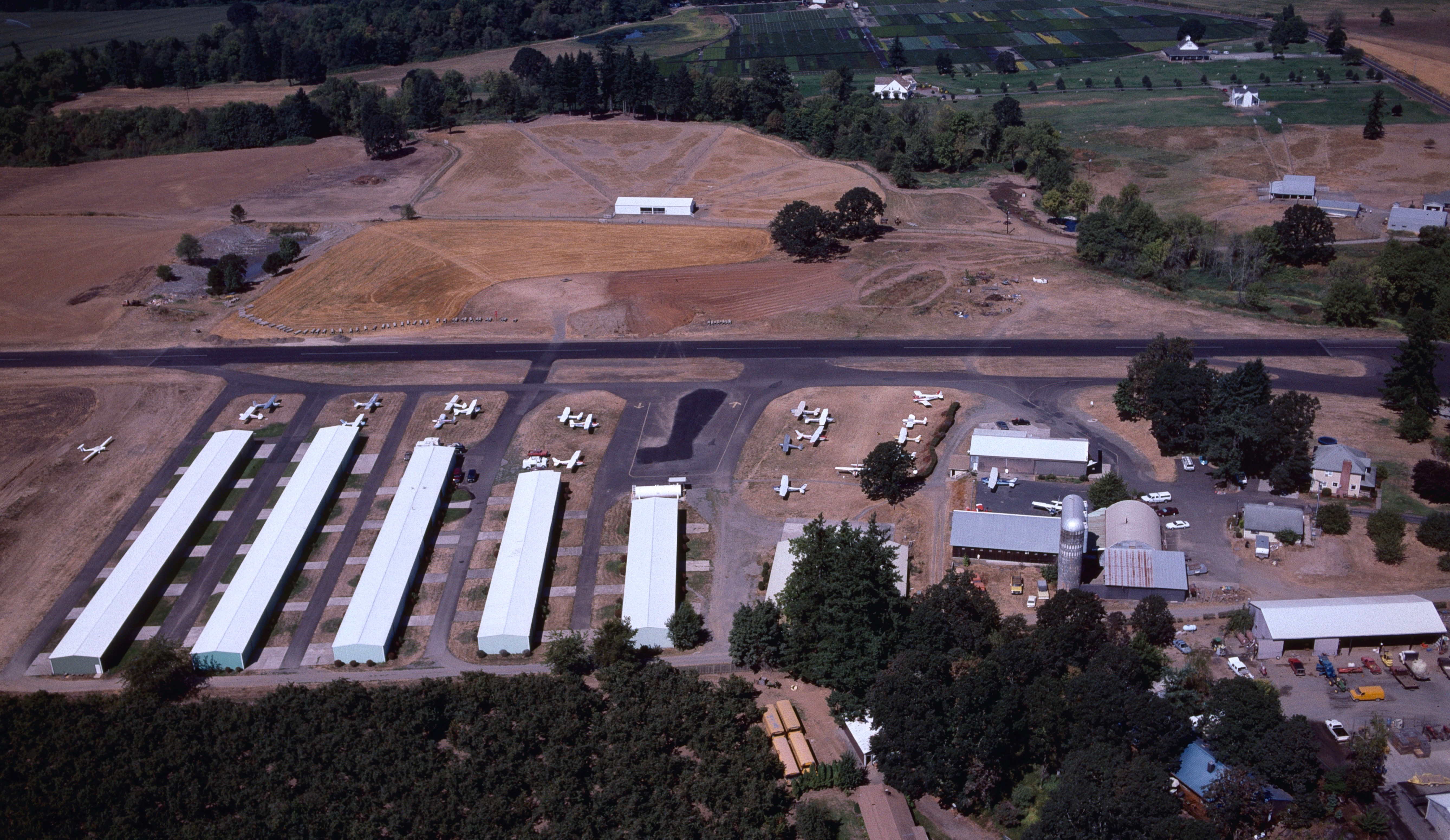 Aerial view of Stark's Twin Oaks Airpark, a private airport located south of Hillsboro, Oregon, in 1998. This view is from the southeast, looking northwest.